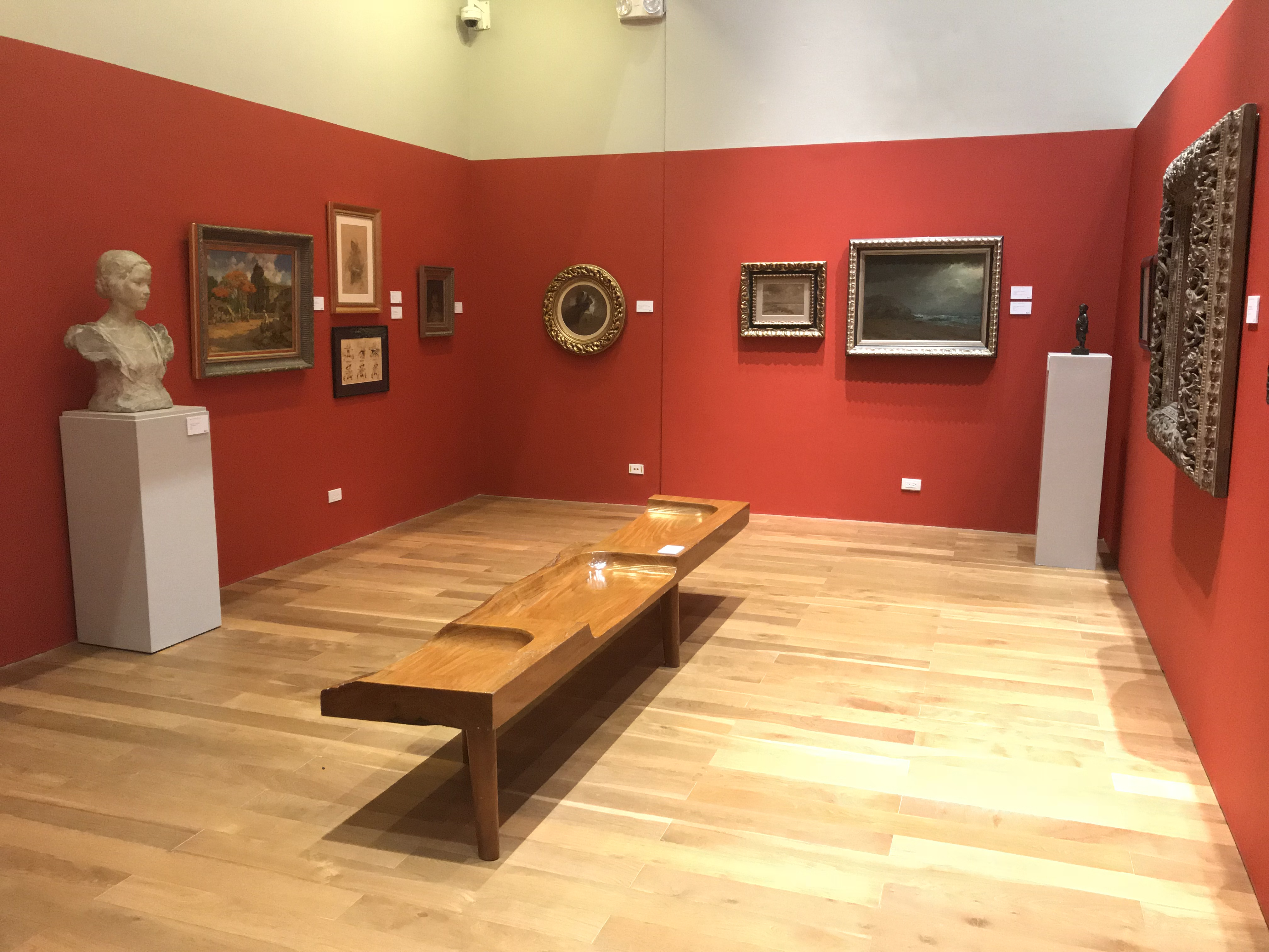 The present layout of the Ambeth R. Ocampo Bequest to the Ateneo Art gallery, taken in 2018.